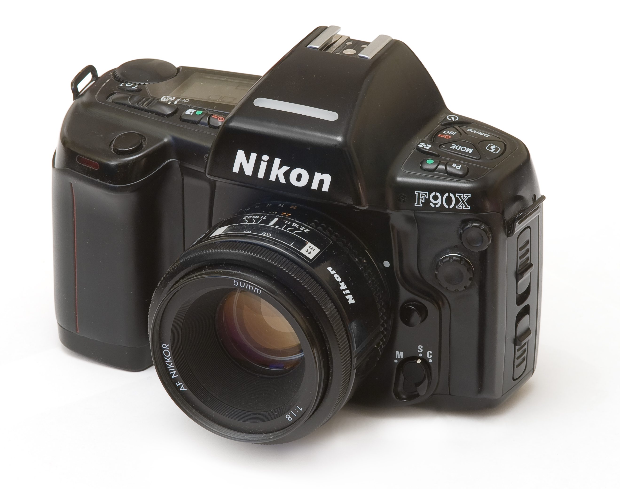 by Amy de Taranto New much higher quality image of F90x camera with AF Nikkor 50mm f/1.8 lens.